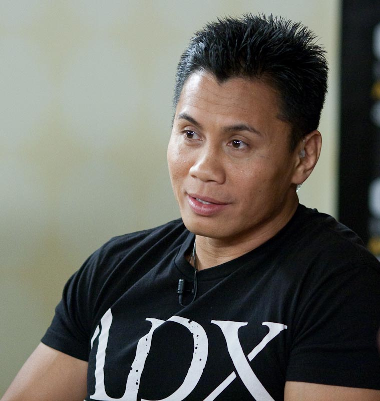 Vietnamese-American actor and mixed martial artist Cung Le, on the set of Inside MMA.